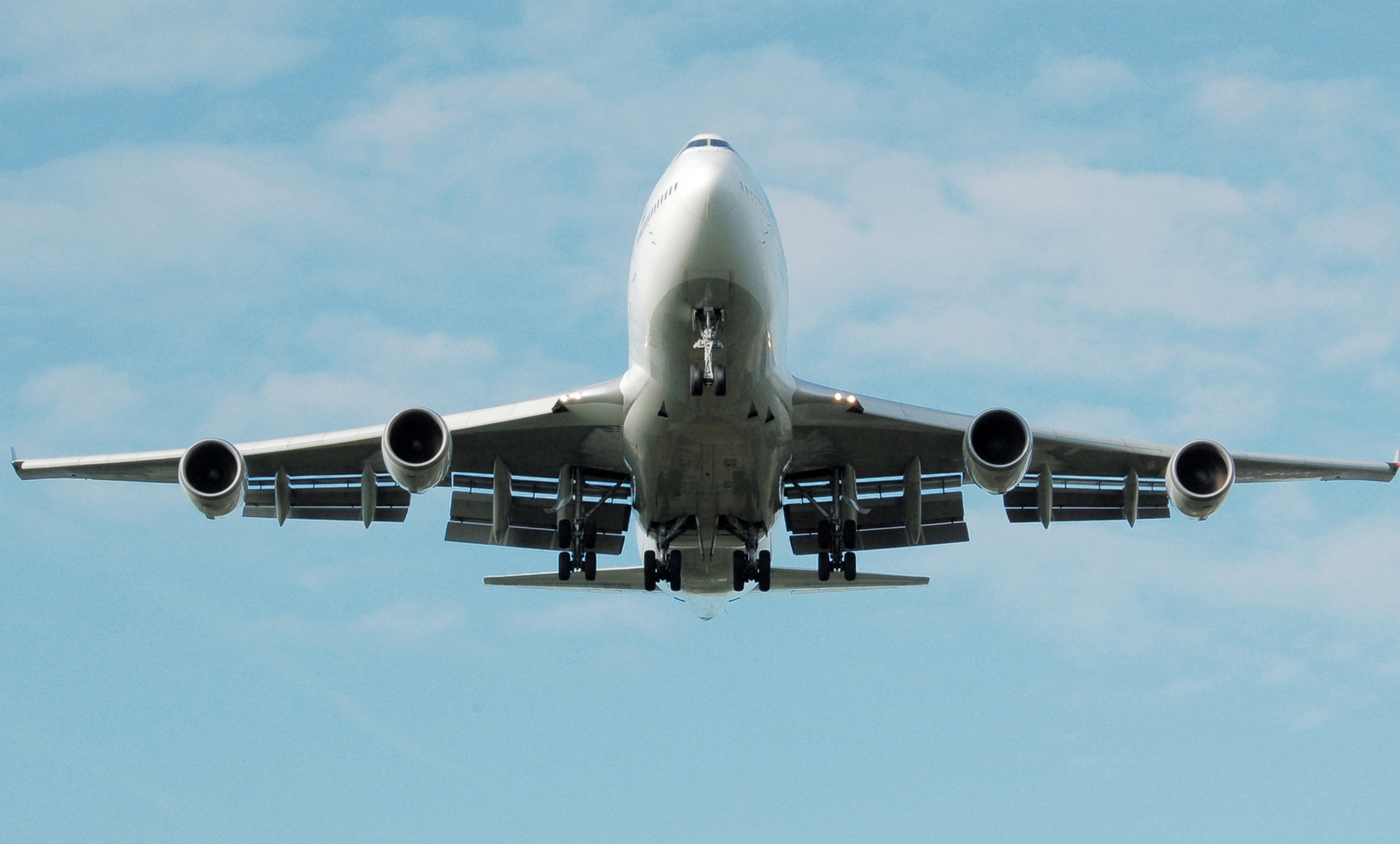 Air New Zealand Boeing 747-400 (ZK-SUH) arrives London Heathrow, England. The triple-slotted trailing edge flaps are well displayed.